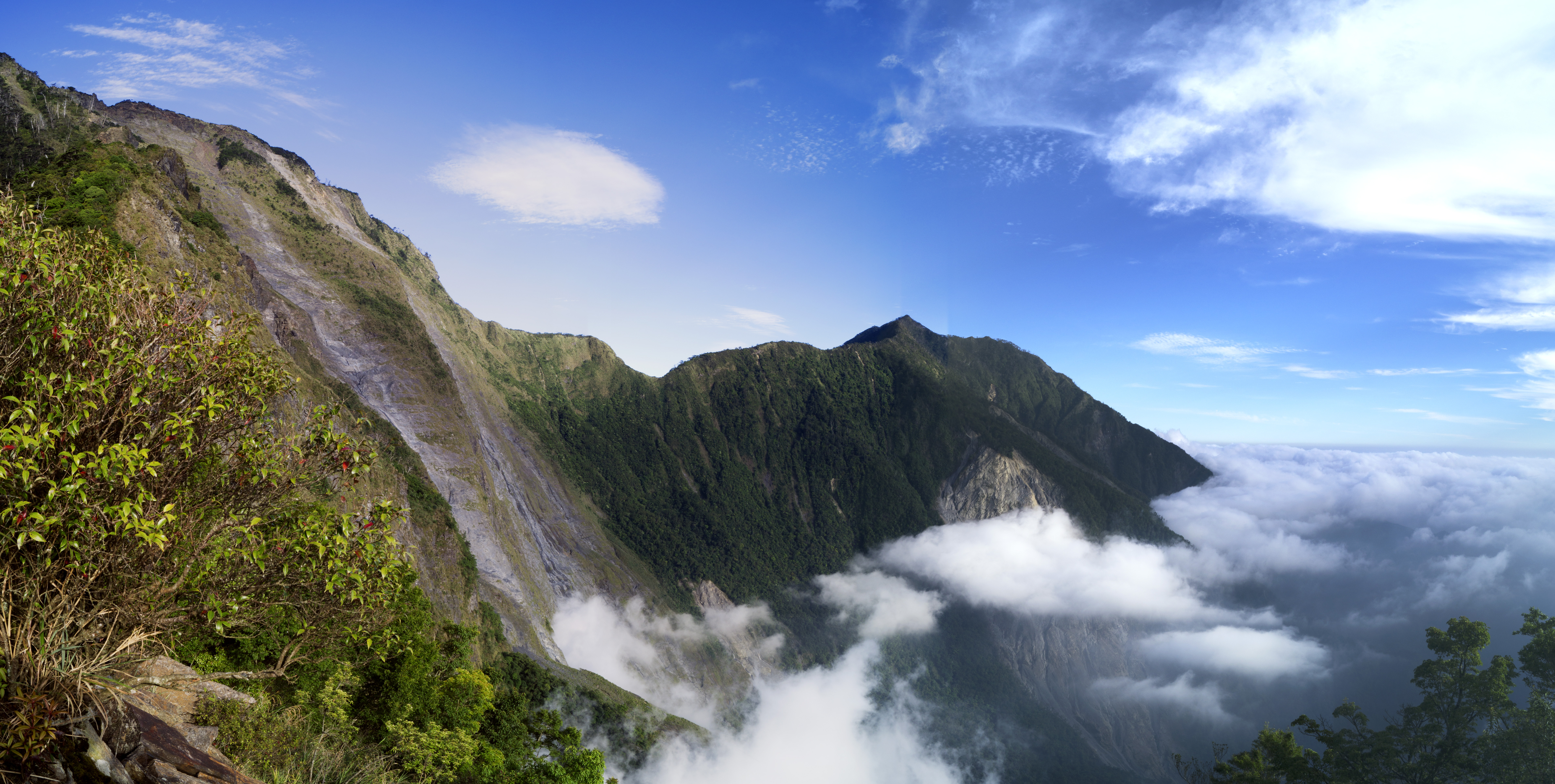 North Dawu Mt trail 3.8k Department, the sea of clouds misty, over the clouds with such as heaven and earth.